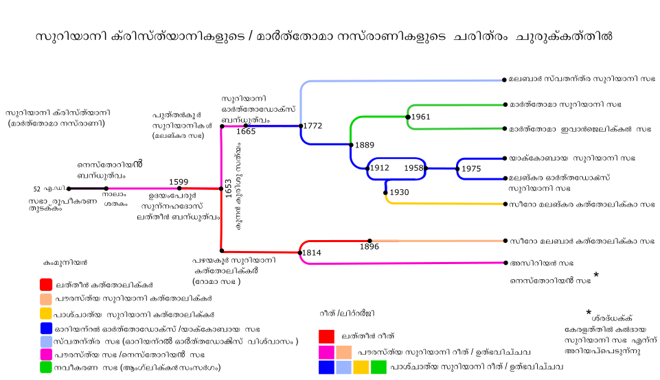 The work is created by Eldoss T. Jogy with Inkscape software